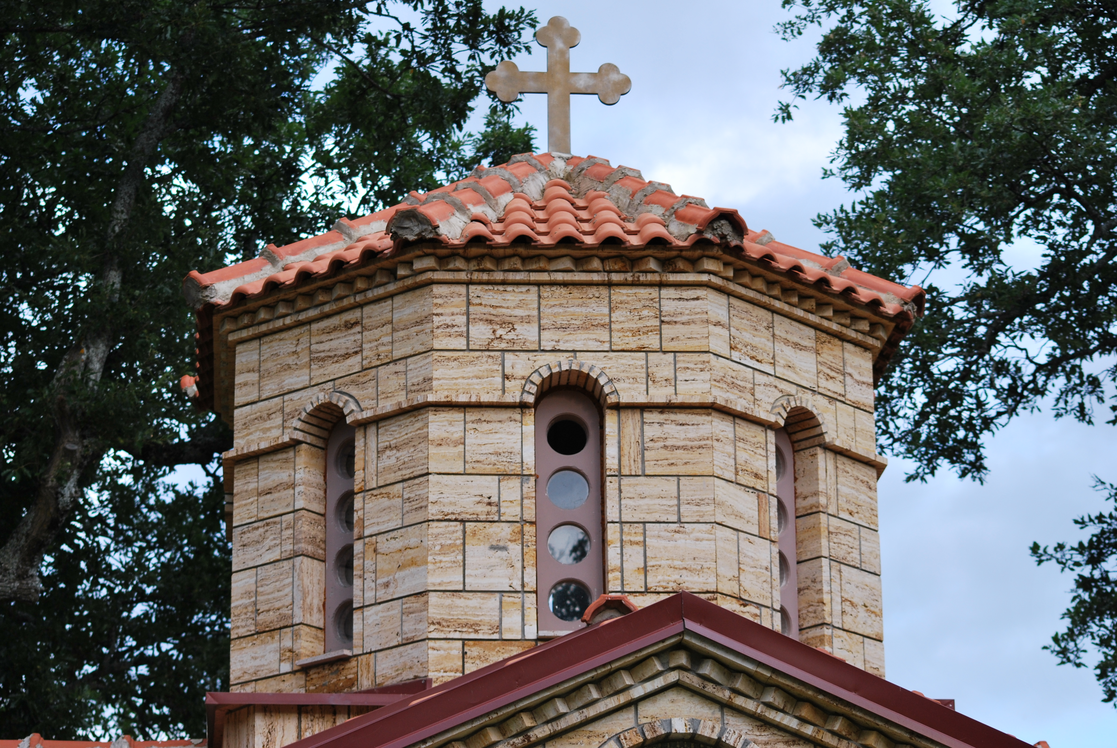 St. Athanasius Church, the main church in Sopotnica Monastery in Sopotnica, Macedonia